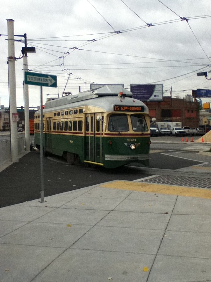 Outside SugarHouse Casino